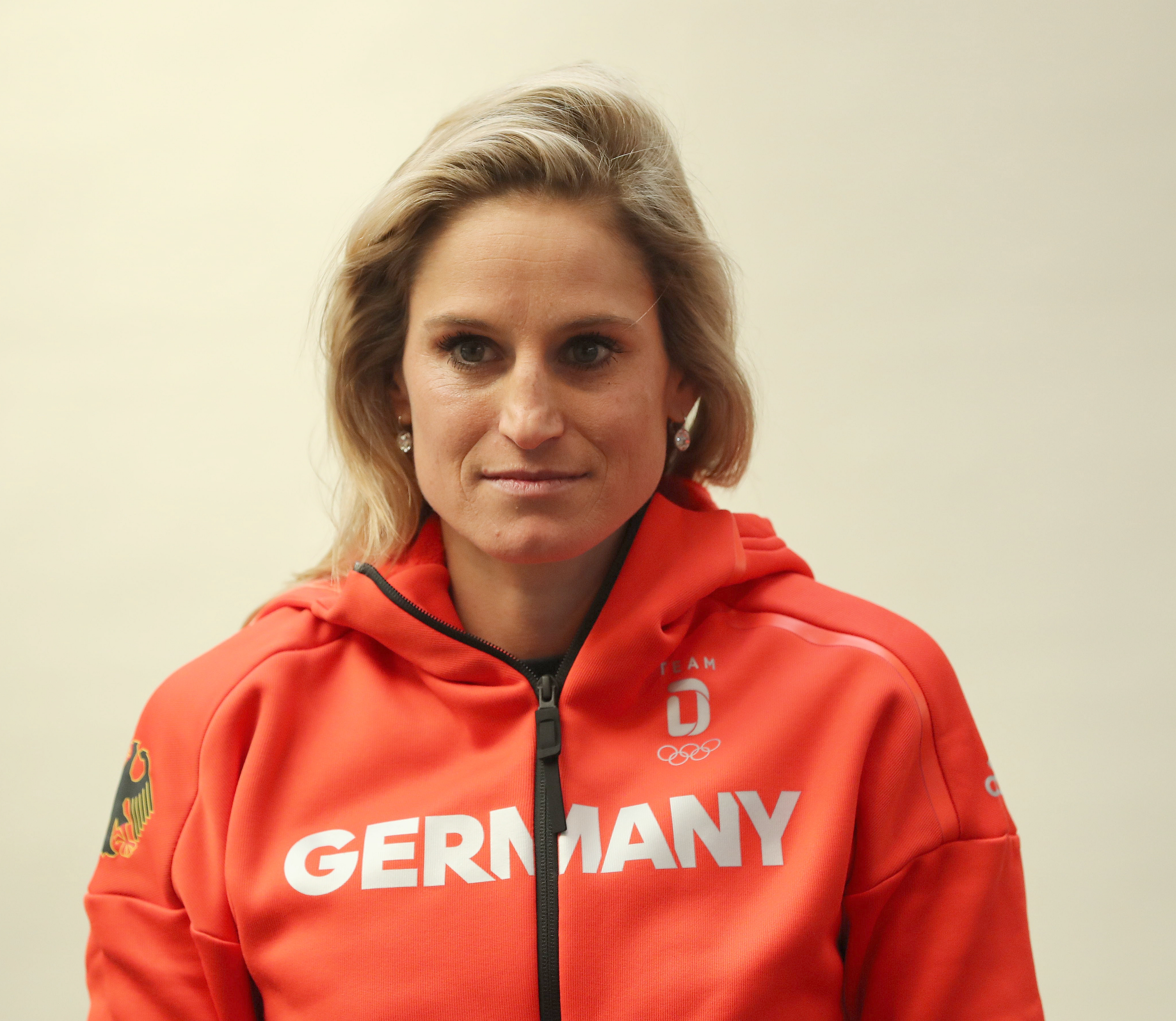 Portraits at the Clothing of the German team for Winter Olympics 2018 in Pyeonchang.